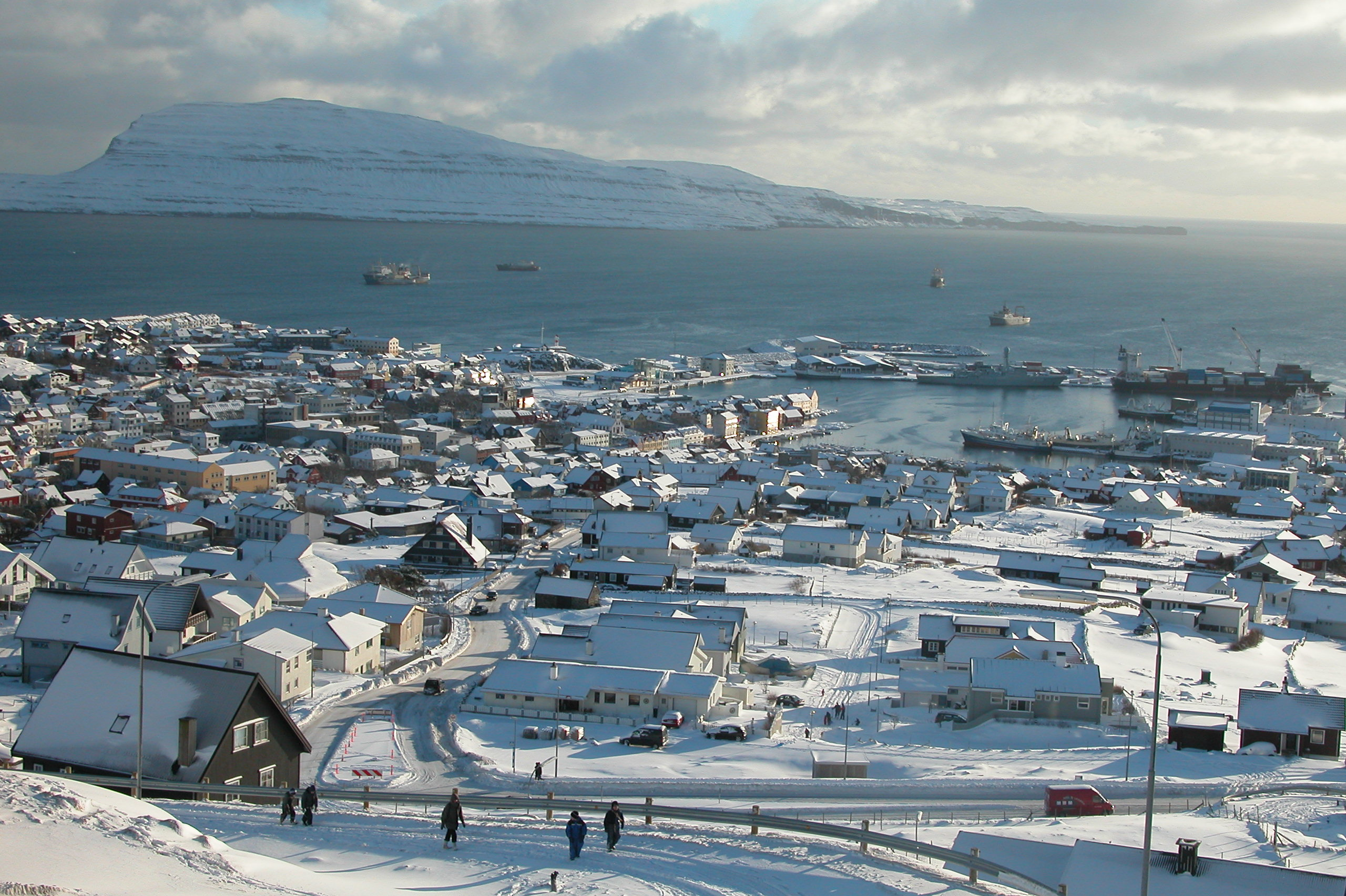 Tórshavn, Faroe Islands